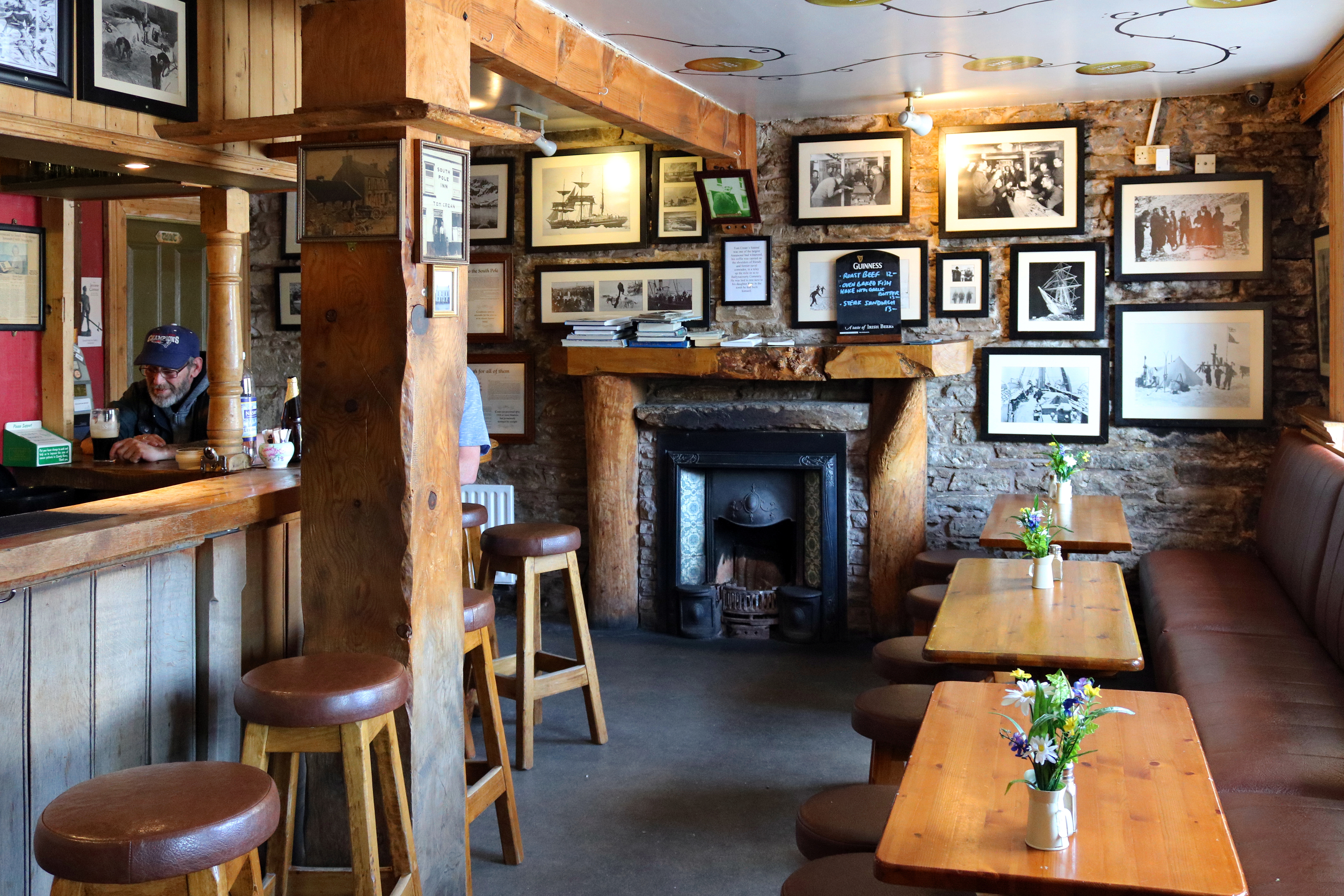 South Pole Inn, Annascaul, Ireland